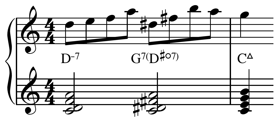 Sharp IIdim7 as dominant substitute